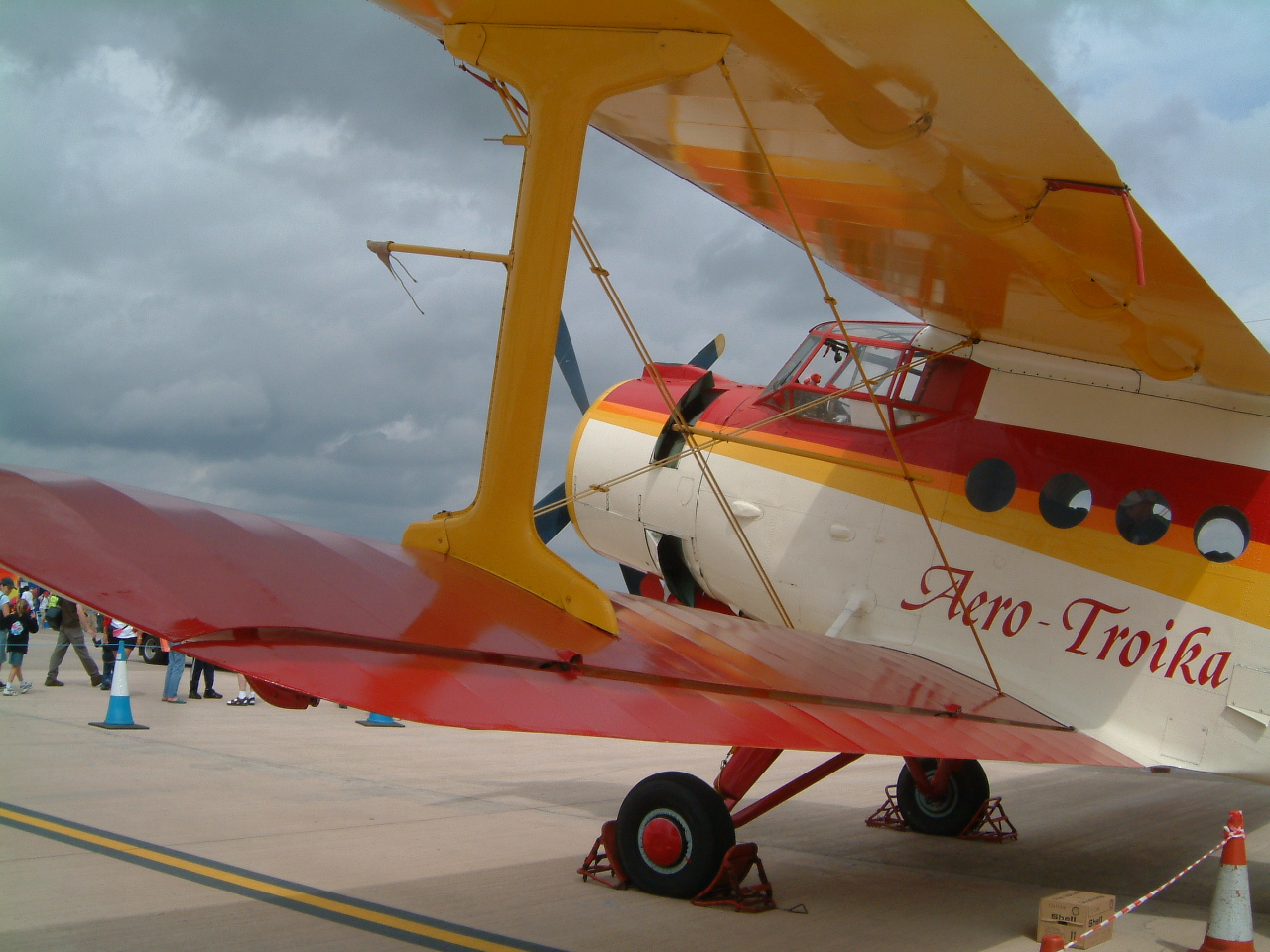 Aero Troika Russia's answer to the DC3. Half the engines and a newer design! Fairford04AN2 The biggest biplane of them all